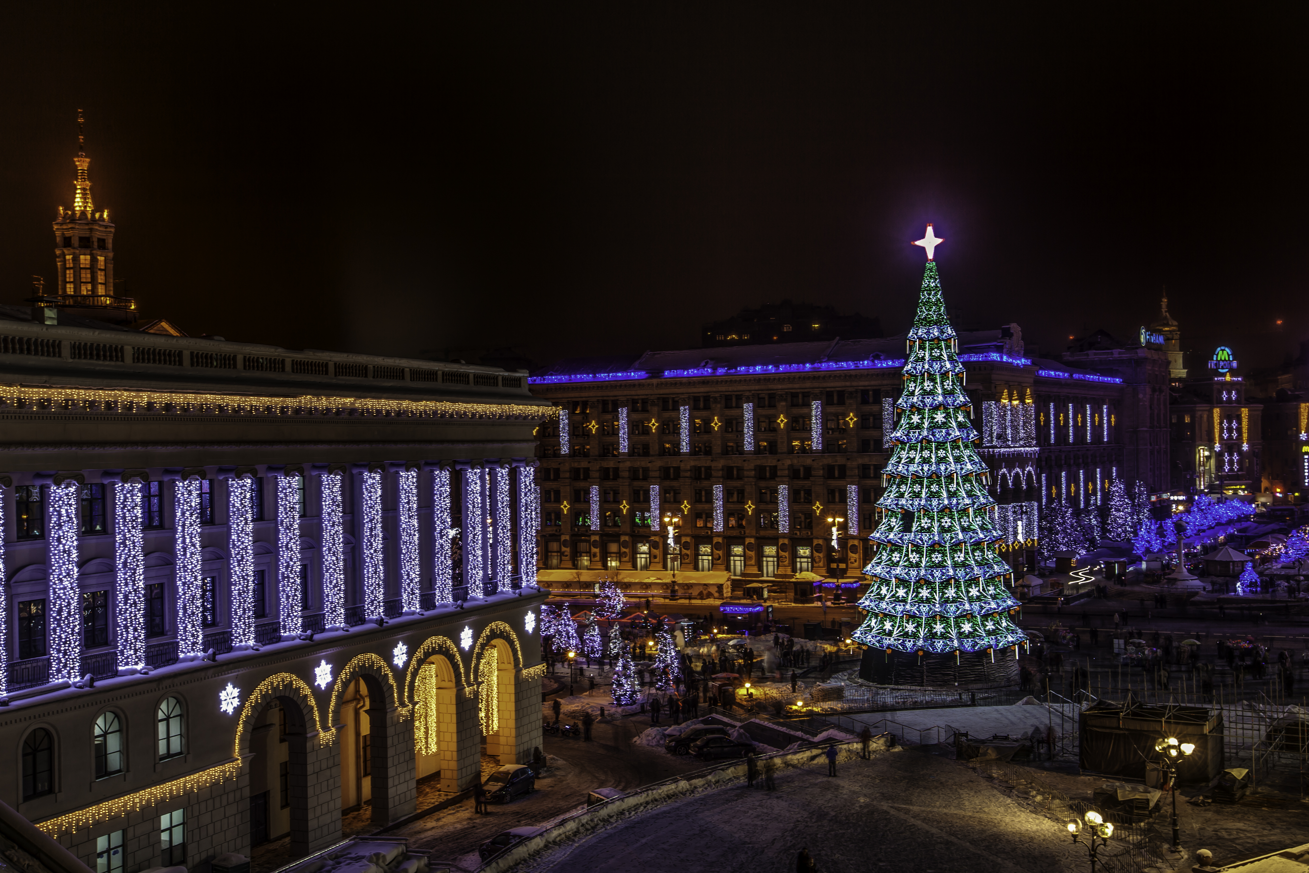 Happy New Year 2012 in Kyiv